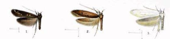 Hyposmocoma species in Fauna Hawaiiensis